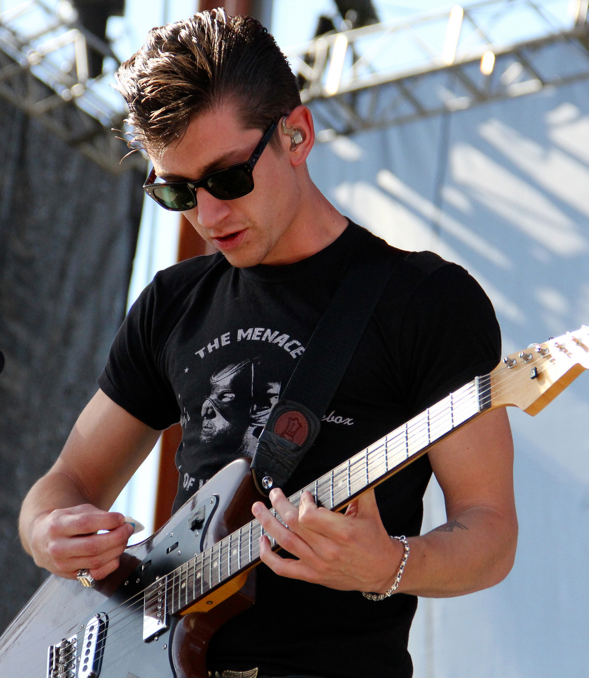 Alex Turner of the Arctic Monkeys performing at Edgefest 22 in Dallas, TX on April 22, 2012.